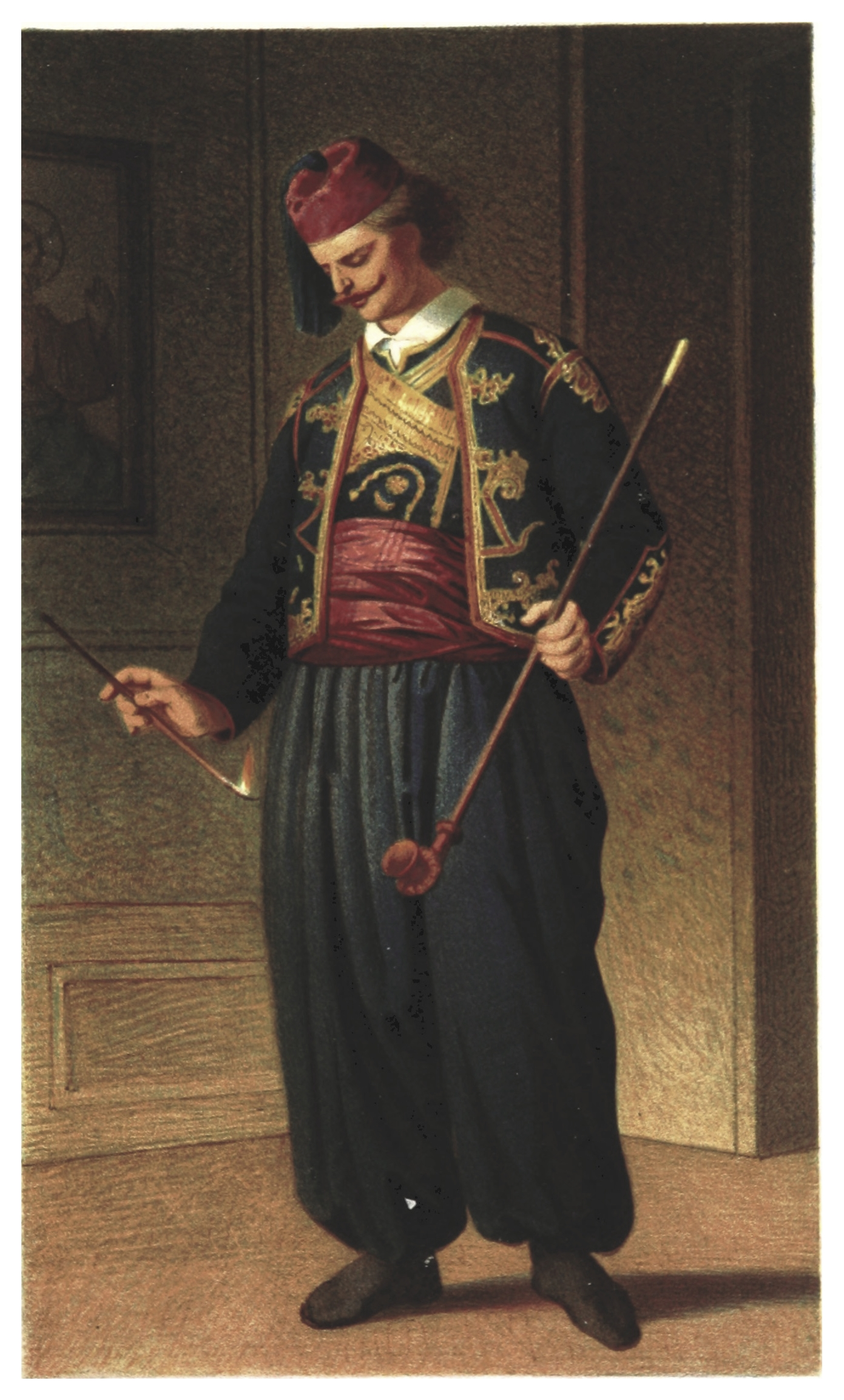 Image extracted from page 13 of Die Serben an der Adria. Ihre Typen und Trachten. (1870) by Louis Salvator, Erzherzog von Österreich. Original held and digitised by the British Library. Copied from Flickr. Note: The colours, contrast and appearance of these illustrations are unlikely to be true to life. They are derived from scanned images that have been enhanced for machine interpretation and have been altered from their originals.